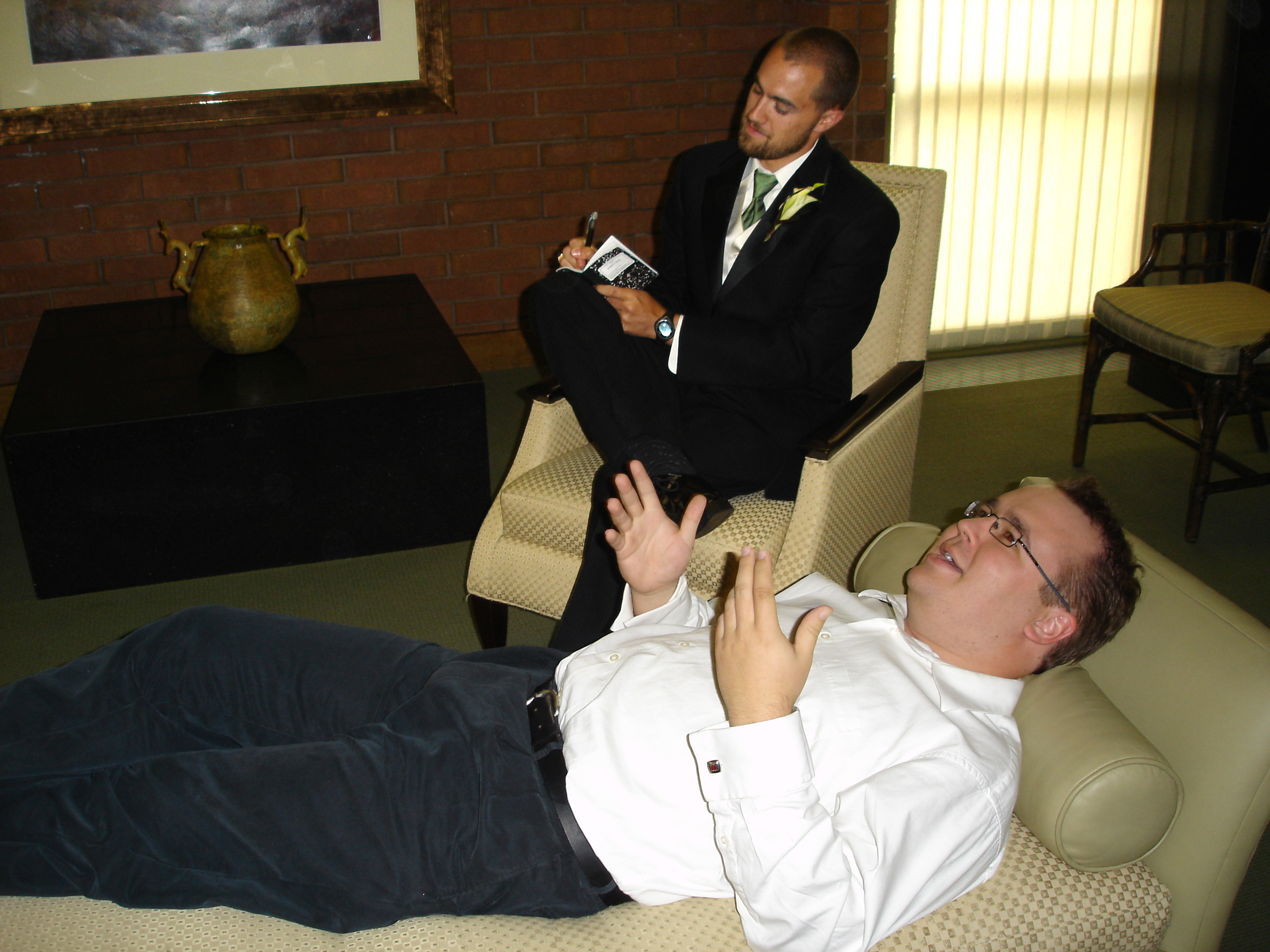 The classic image of a patient on a divan. The association of psychotherapy and divans is the result of Sigmund Freud's psychoanalytic couch which was a divan, draped with a heavy Persian rug and cushions, given to him as a gift from a patient.